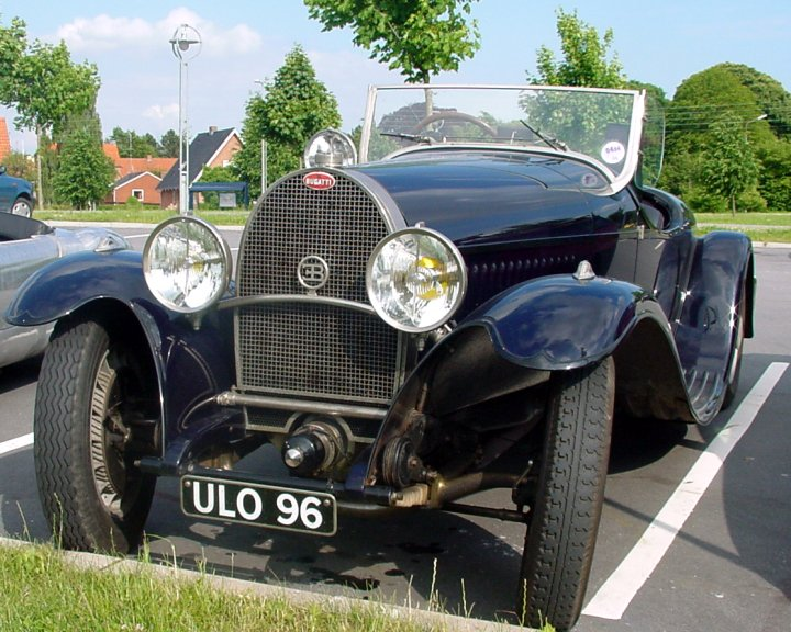 Bugatti Type 49 (please correct if wrong) with English license plate ULO 96. Chassis number 49428. Photographed in Roskilde, Denmark (